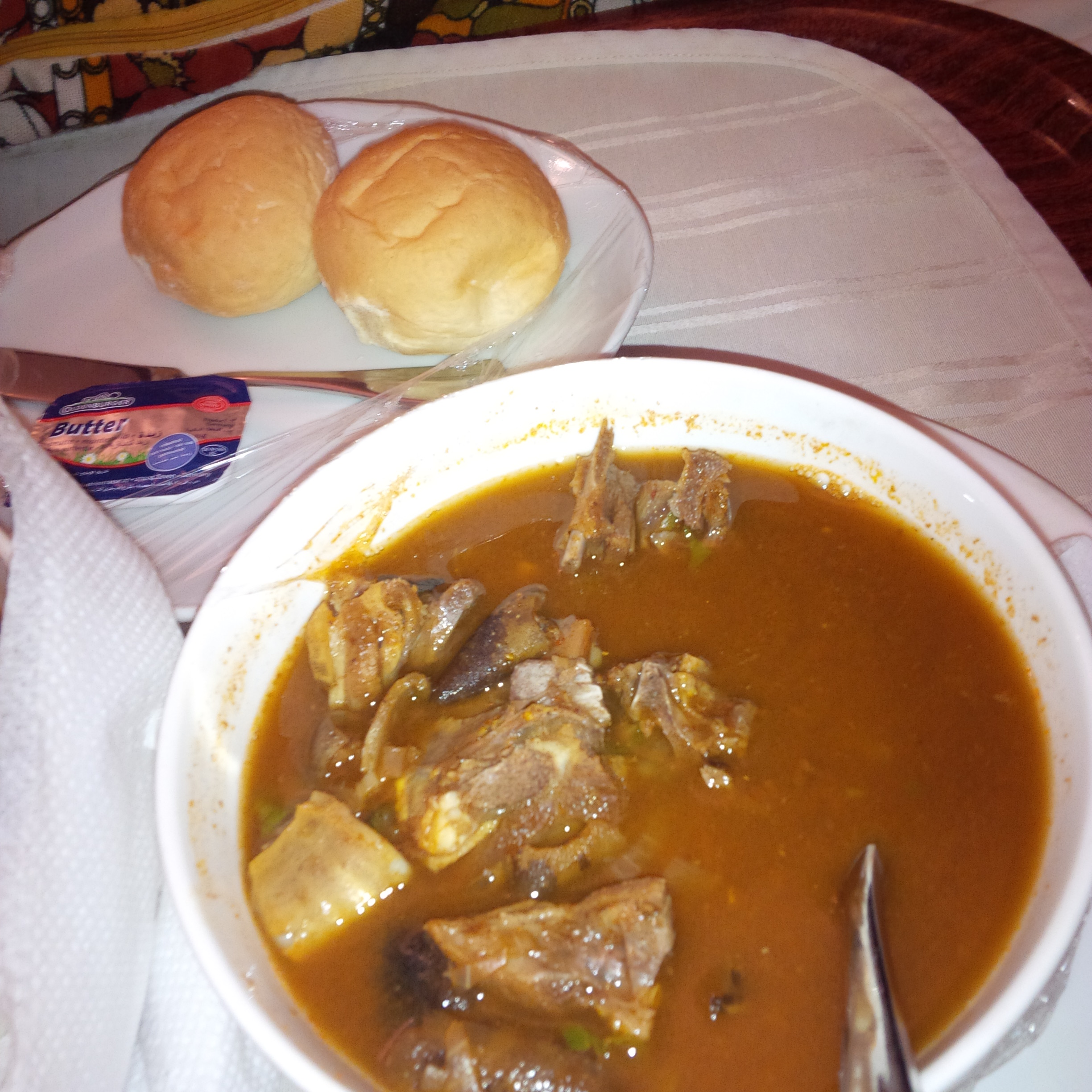 goat meat sauce spiced to be eaten with bread or palmwine